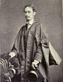 Taken from Thompson and Thompson's book Silvanus Thompson, His Life and Letters, published in 1920